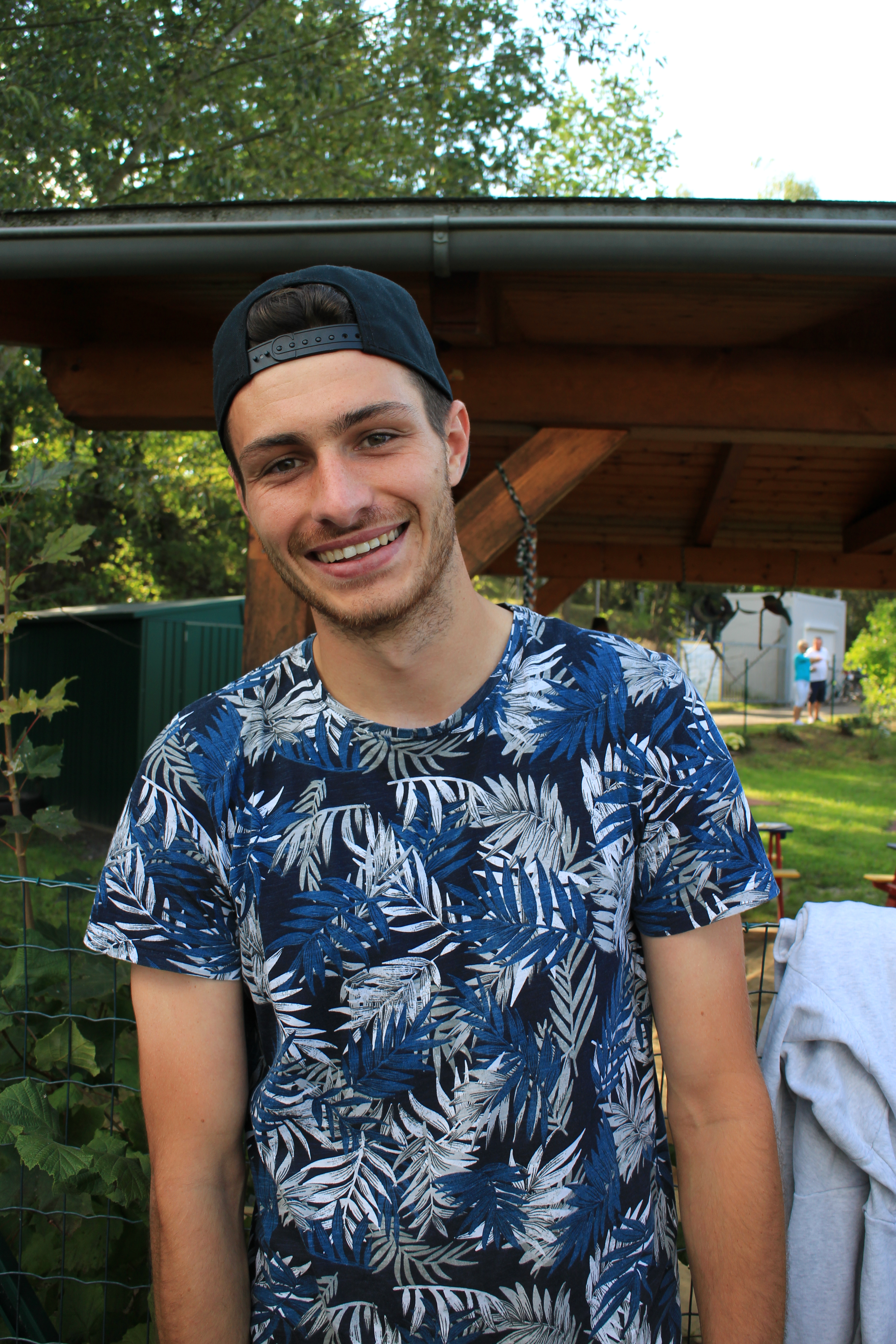 Stefan Meusburger (Innsbruck) as a visitor